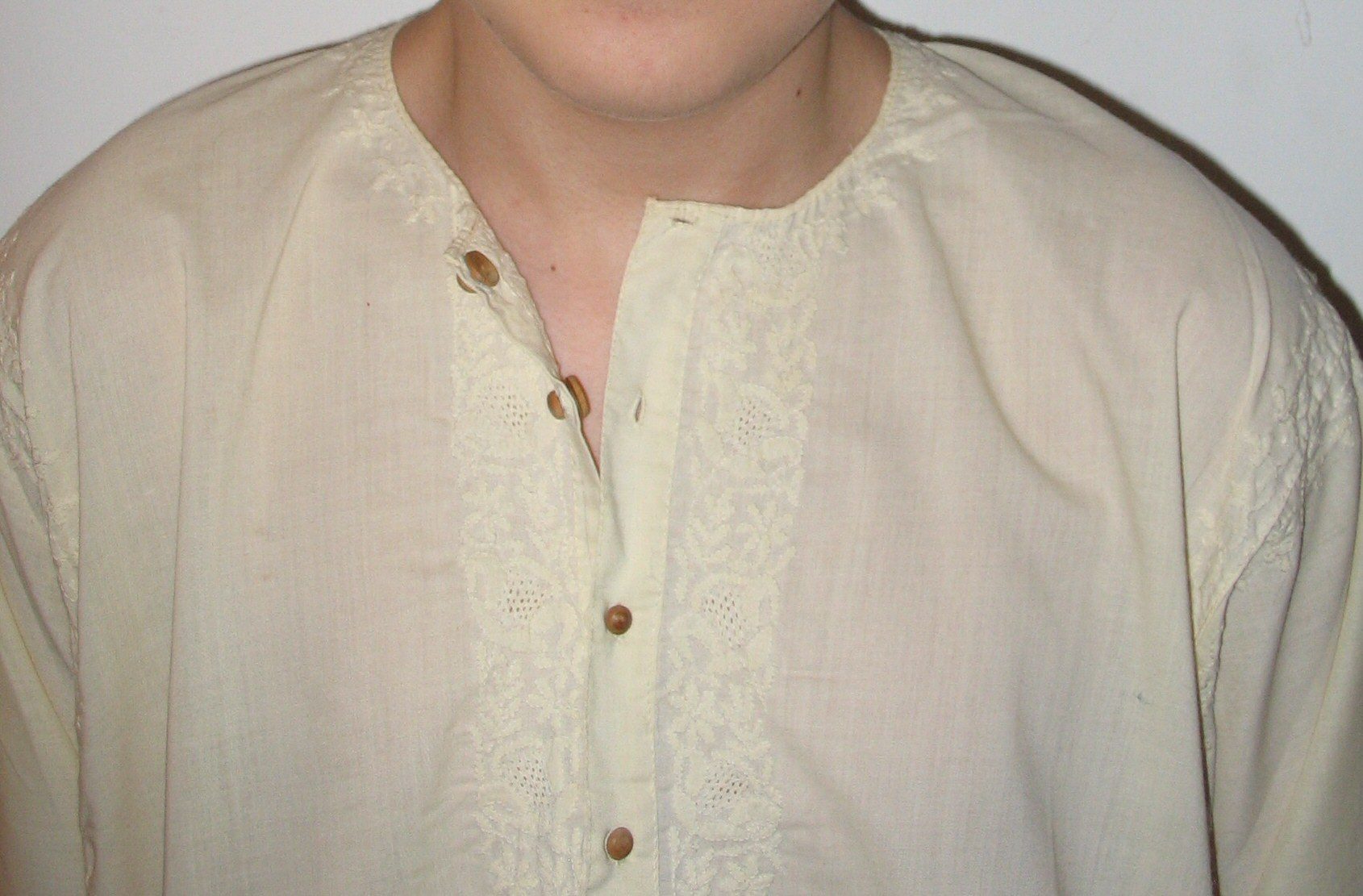 High resolution image of traditional wooden (sandalwood) cuff links styles buttons and Chikan embroidery on the Kurta, taken with Cannon Powershot A-85 (4.0 Mega Pixels), by Fowler&fowler«Talk» 22:40, 4 February 2007 (UTC)